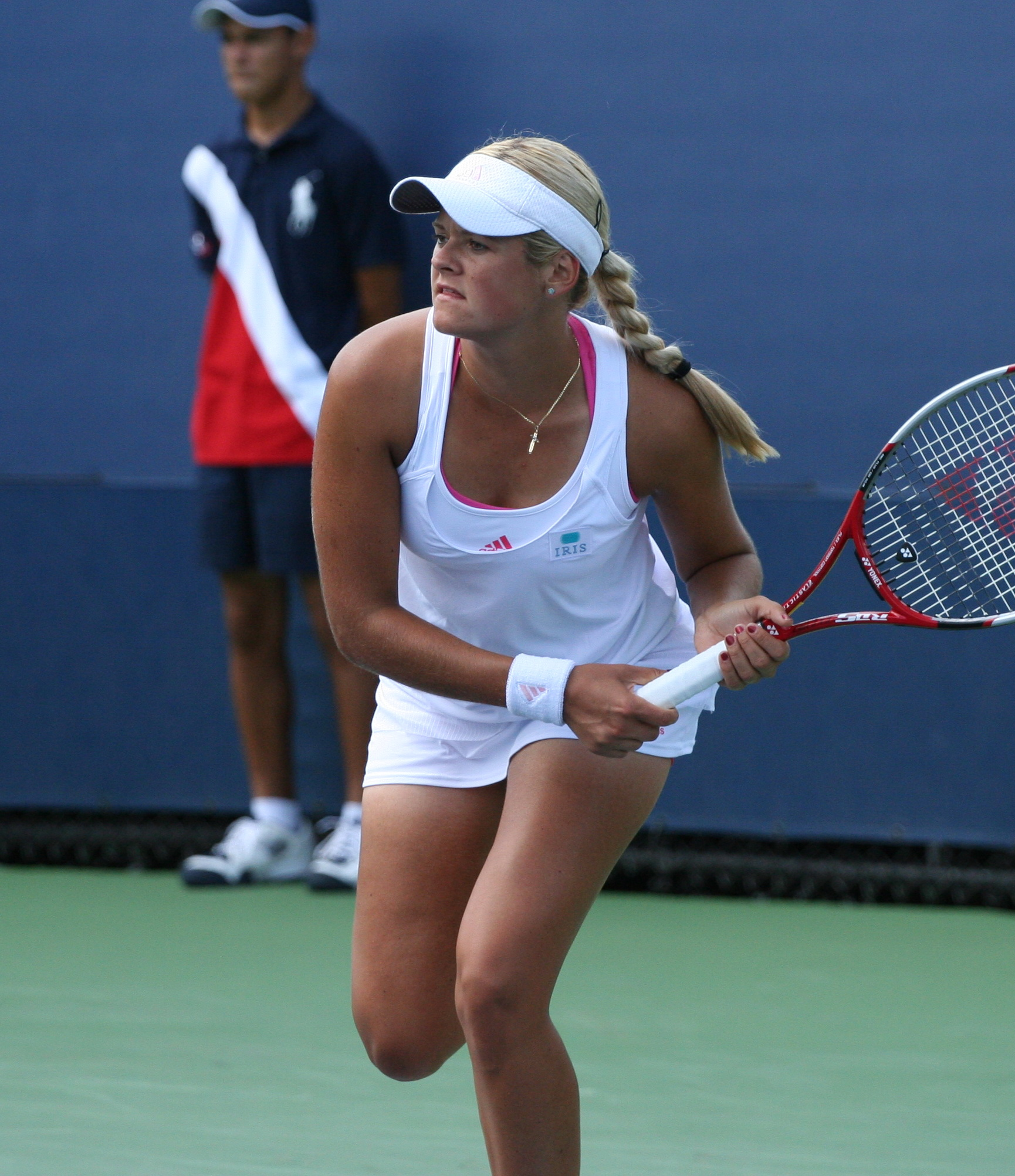 U.S. Open Monday, Aug. 31, 2009